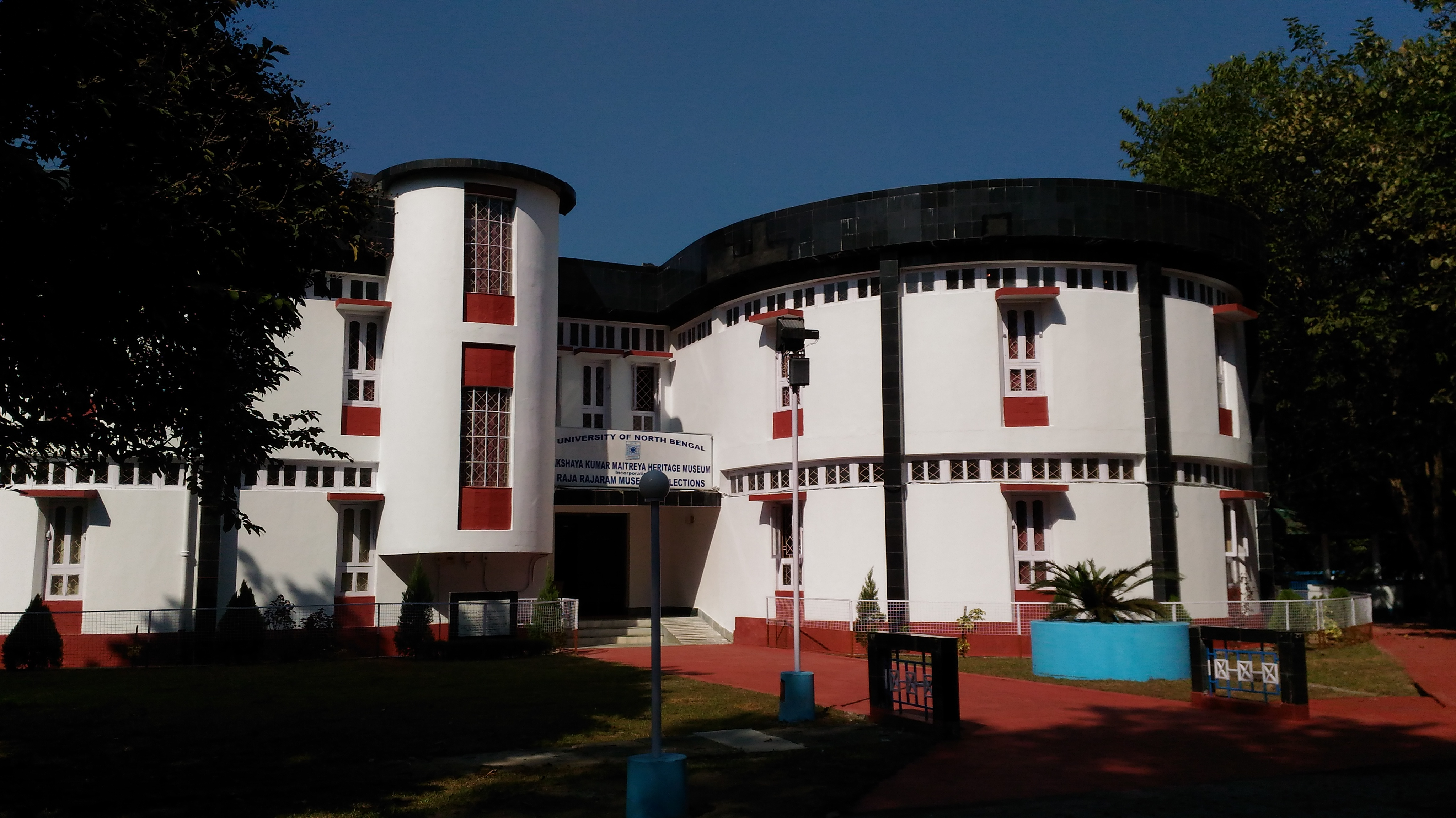 NBU Museum